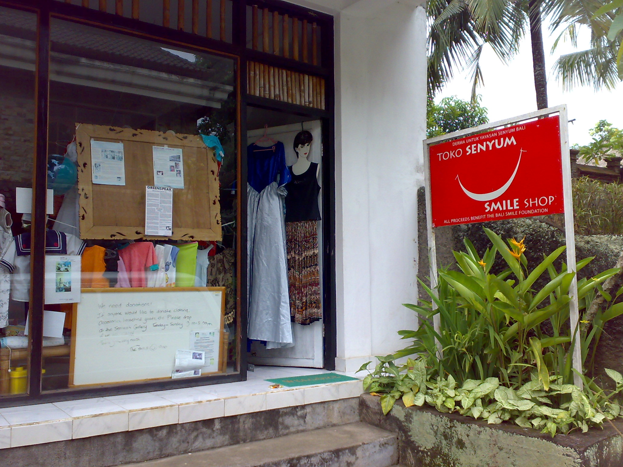 Entrance and sign for the Smile Foundation of Bali's 'Smile Shop' (an Op shop) in Ubud, Bali